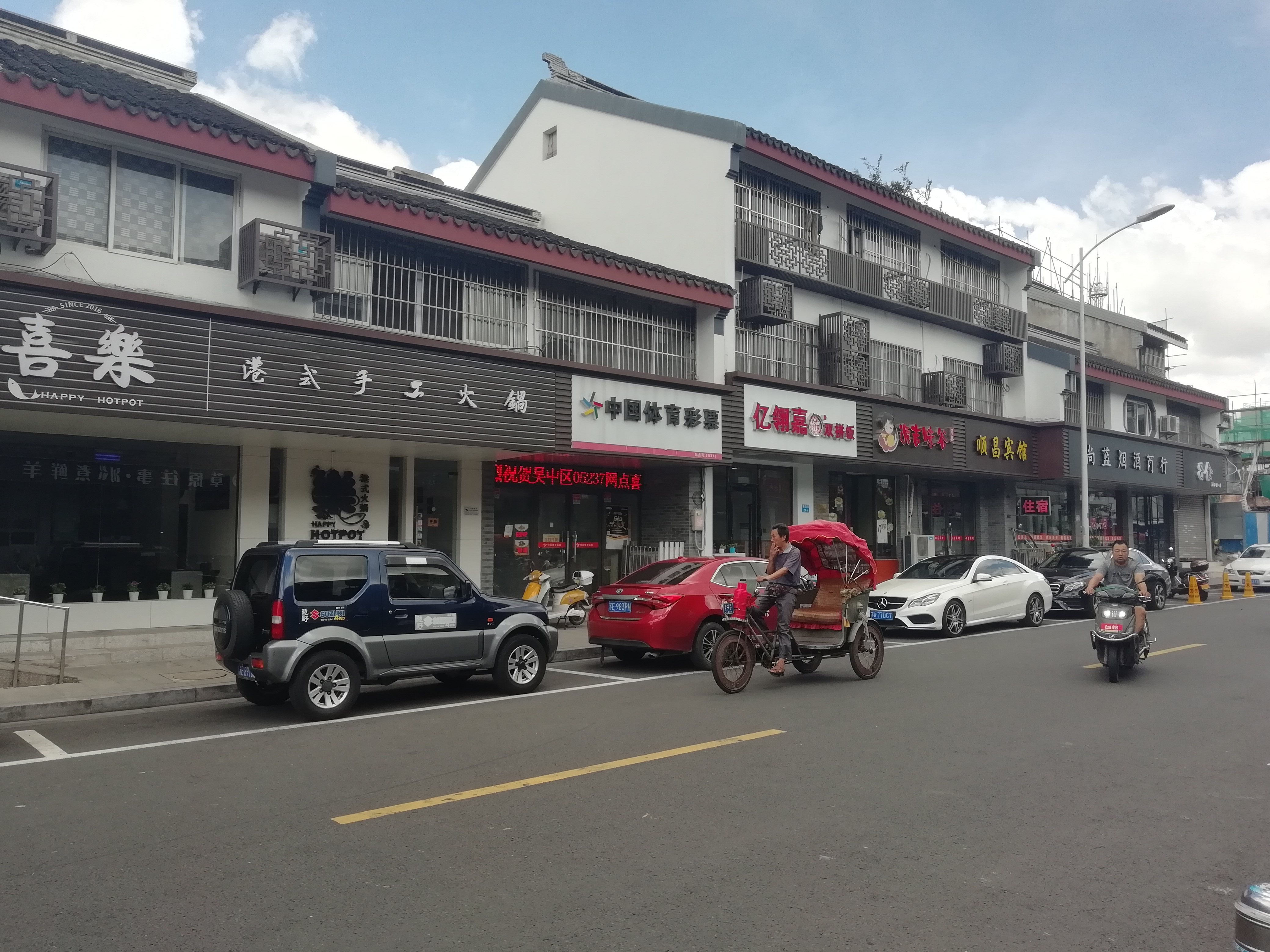 A China Sports Lottery Store, located on Jiayu Lane, Gusu District, Suzhou 中文（中国大陆）: 位于江苏省苏州市姑苏区嘉余坊的中国体育彩票（体彩）投注站